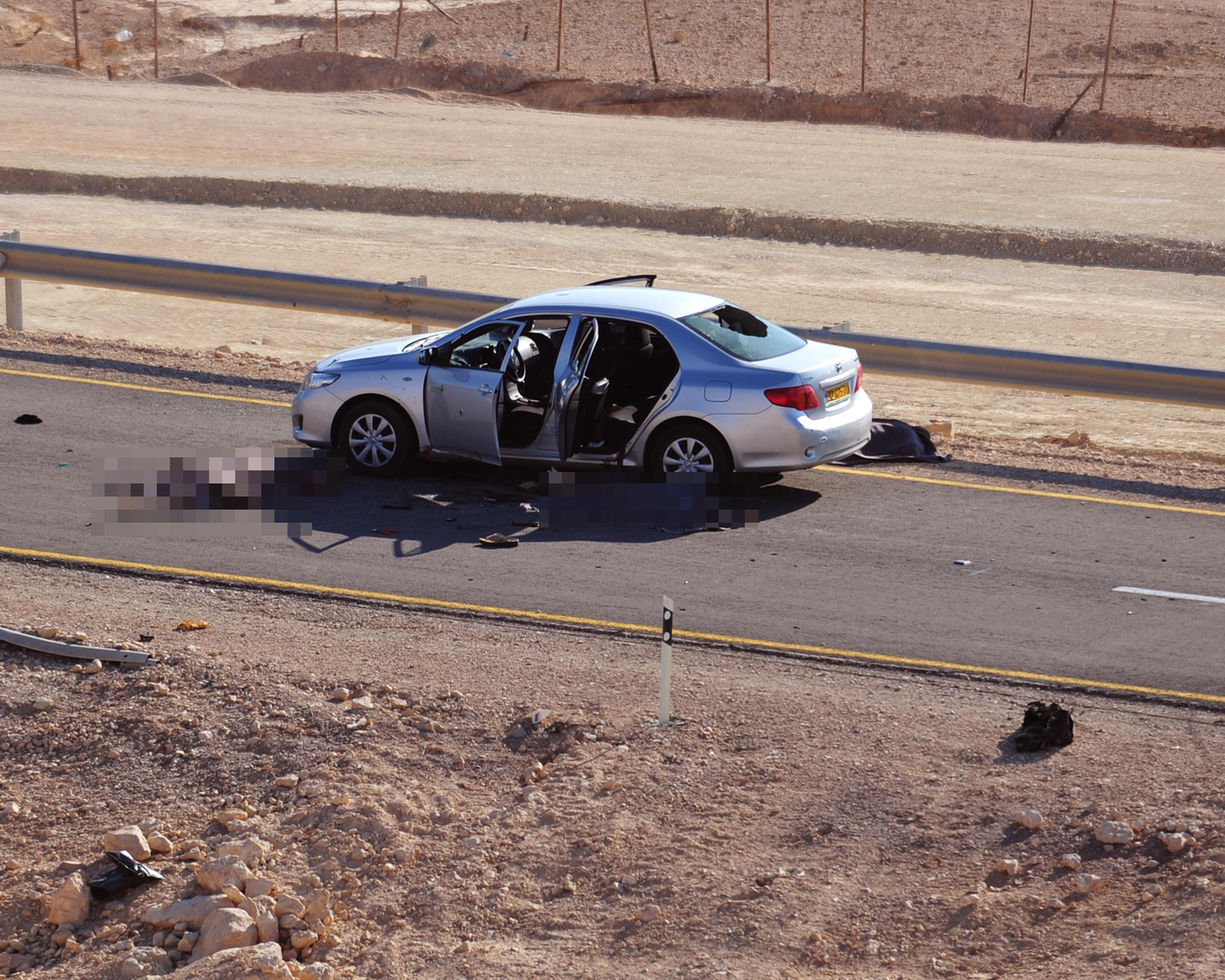 August 18, 2011 Today, 7 people were killed, and about 40 were injured in a multi-prong terror attack targeting Israeli civilians. The malicious attack targeted Israeli civilians, who were on their way to Eilat, a popular tourist destination for summer vacations. Photos by: Ariel Hermoni